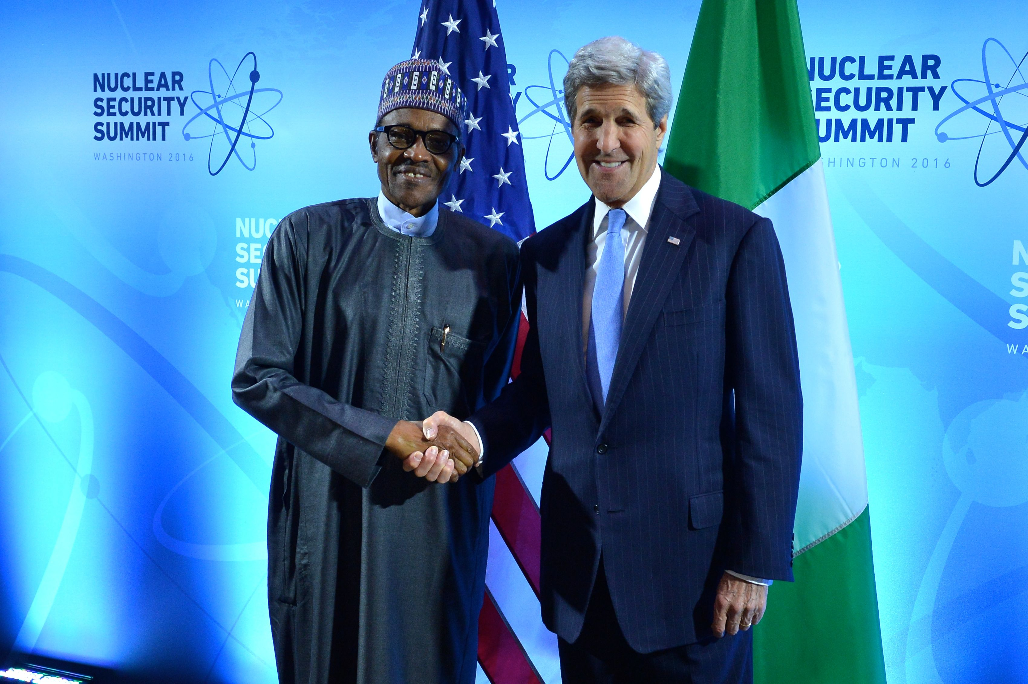 U.S. Secretary of State John Kerry and Nigerian President Muhammadu Buhari pose for a photo before their bilateral meeting at the 2016 Nuclear Security Summit in Washington, D.C., on March 31, 2016. [State Department photo/ Public Domain]